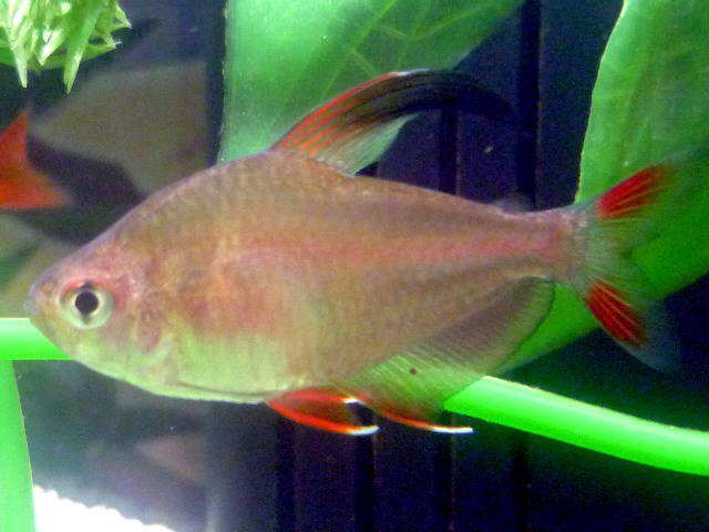 A male rosy tetra with a black dorsal fin.